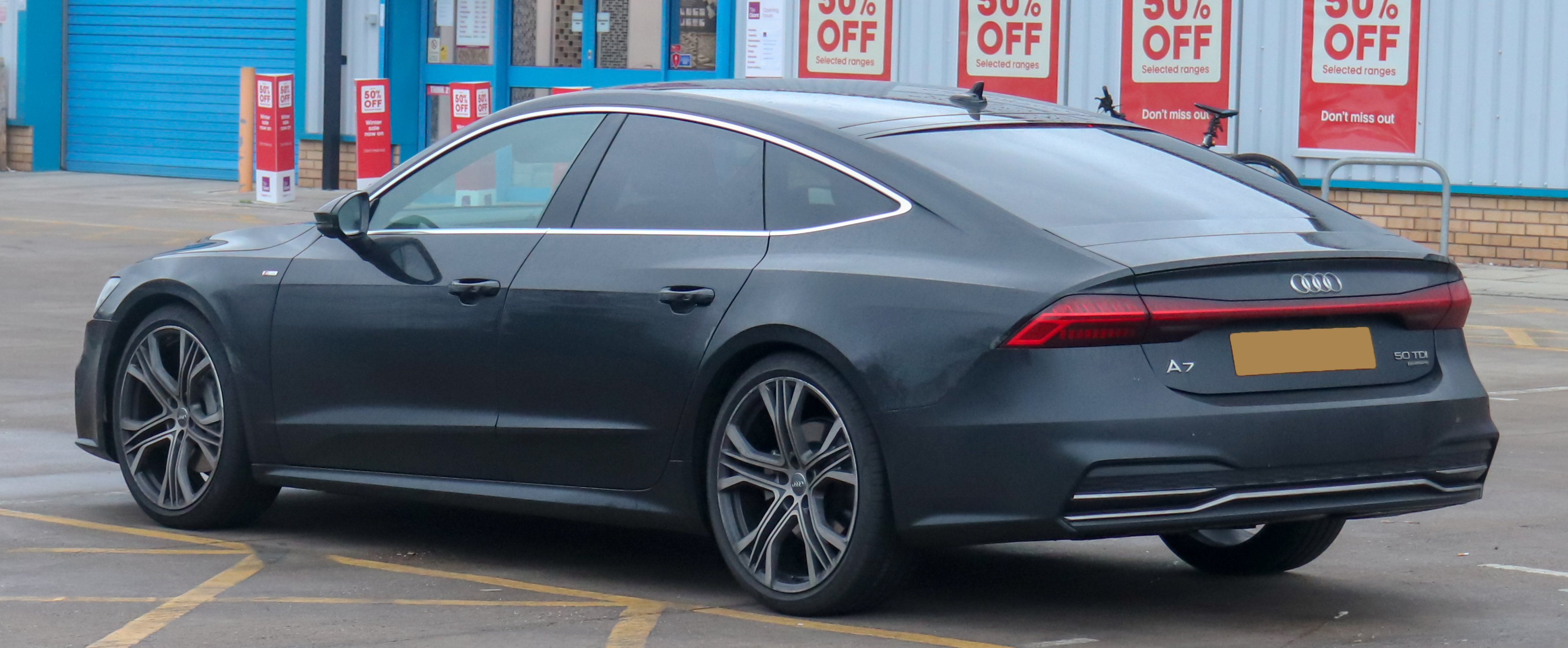 2018 Audi A7 S Line 50 TDi Quattro 3.0 Rear Taken in Leamington Spa